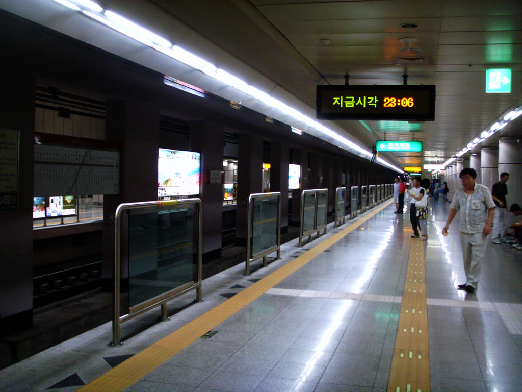 Daegu Subway Line 1 Daegu Station